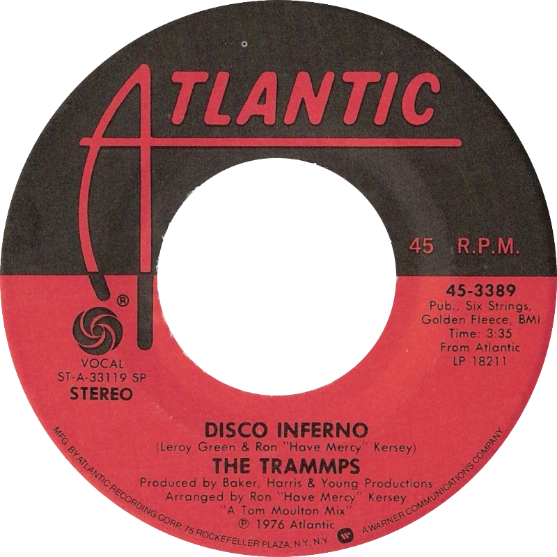 Side-A label of the original 1976 US 7-inch vinyl single "Disco Inferno" by The Trammps.